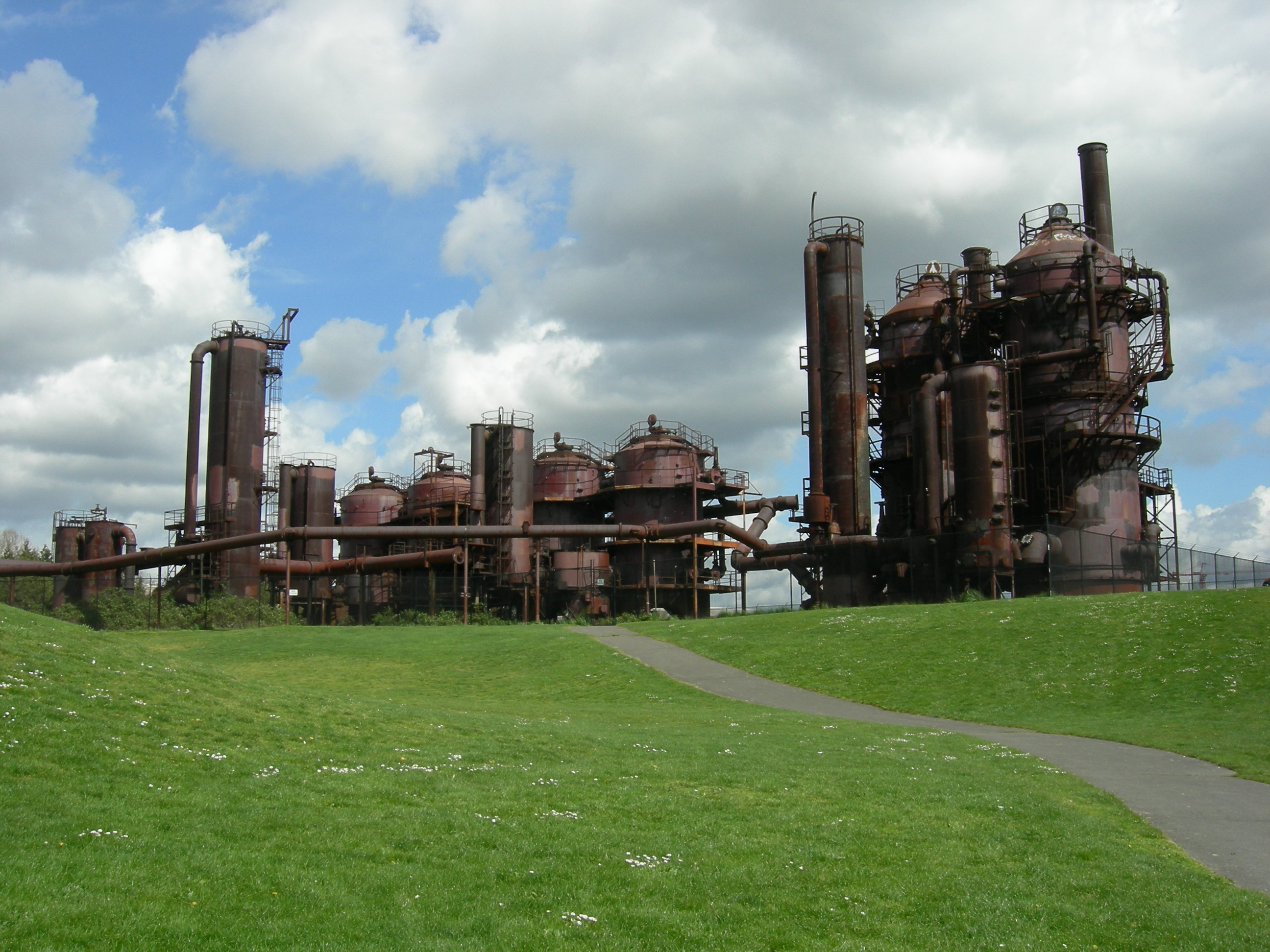 Gas Works Park, Seattle, Washington.